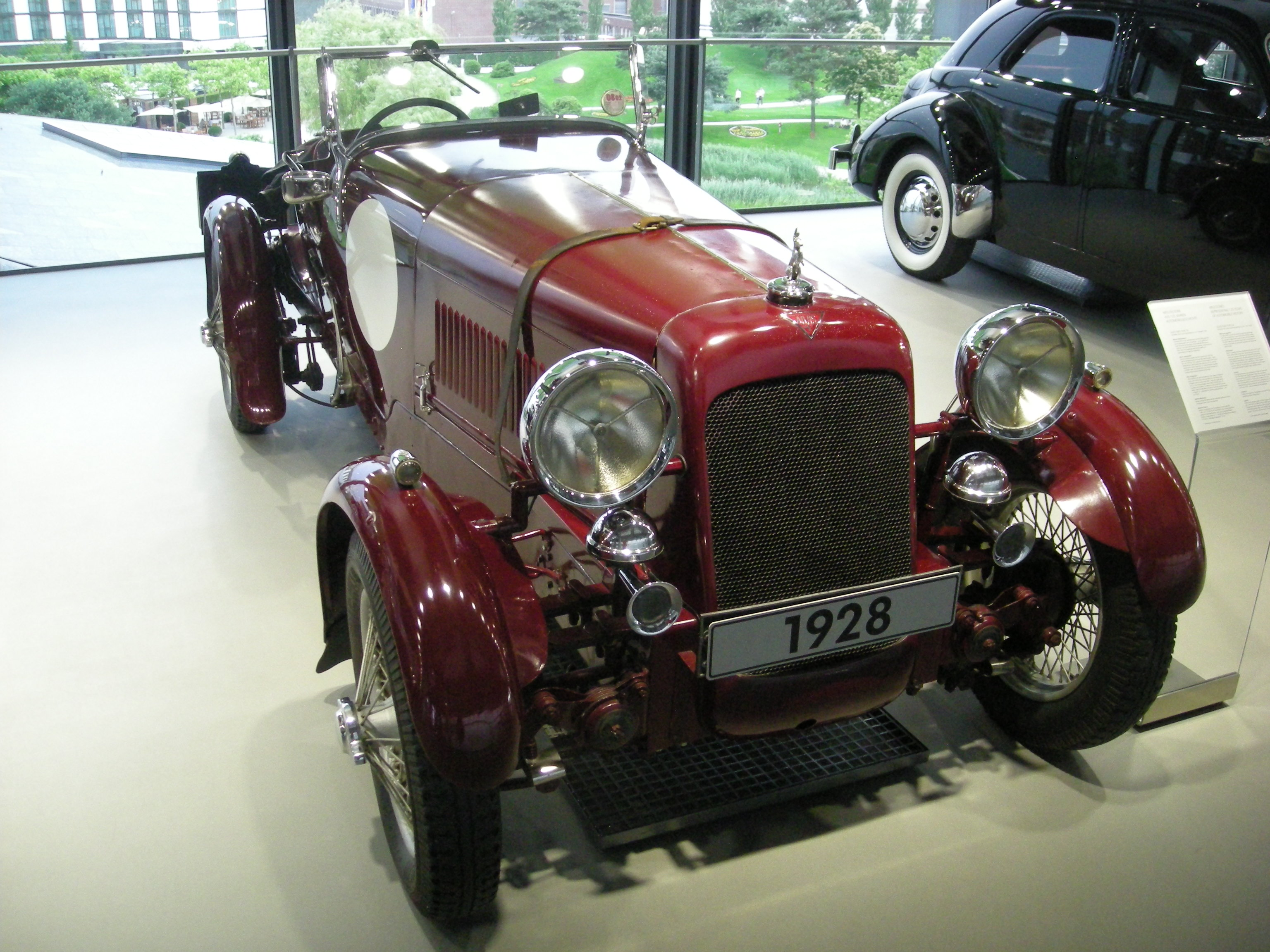 A 1928 Alvis FWD Type FA inside the ZeitHaus at Autostadt in Wolfsburg, Niedersachsen (Germany).